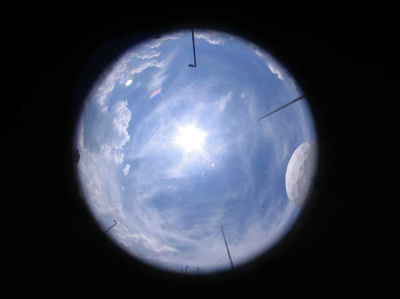 Whole sky picture. Taken with whole sky camera on July 24, 2009 north of the Kennedy Space Center during a meteorological field project in the proximity of the MCR radar